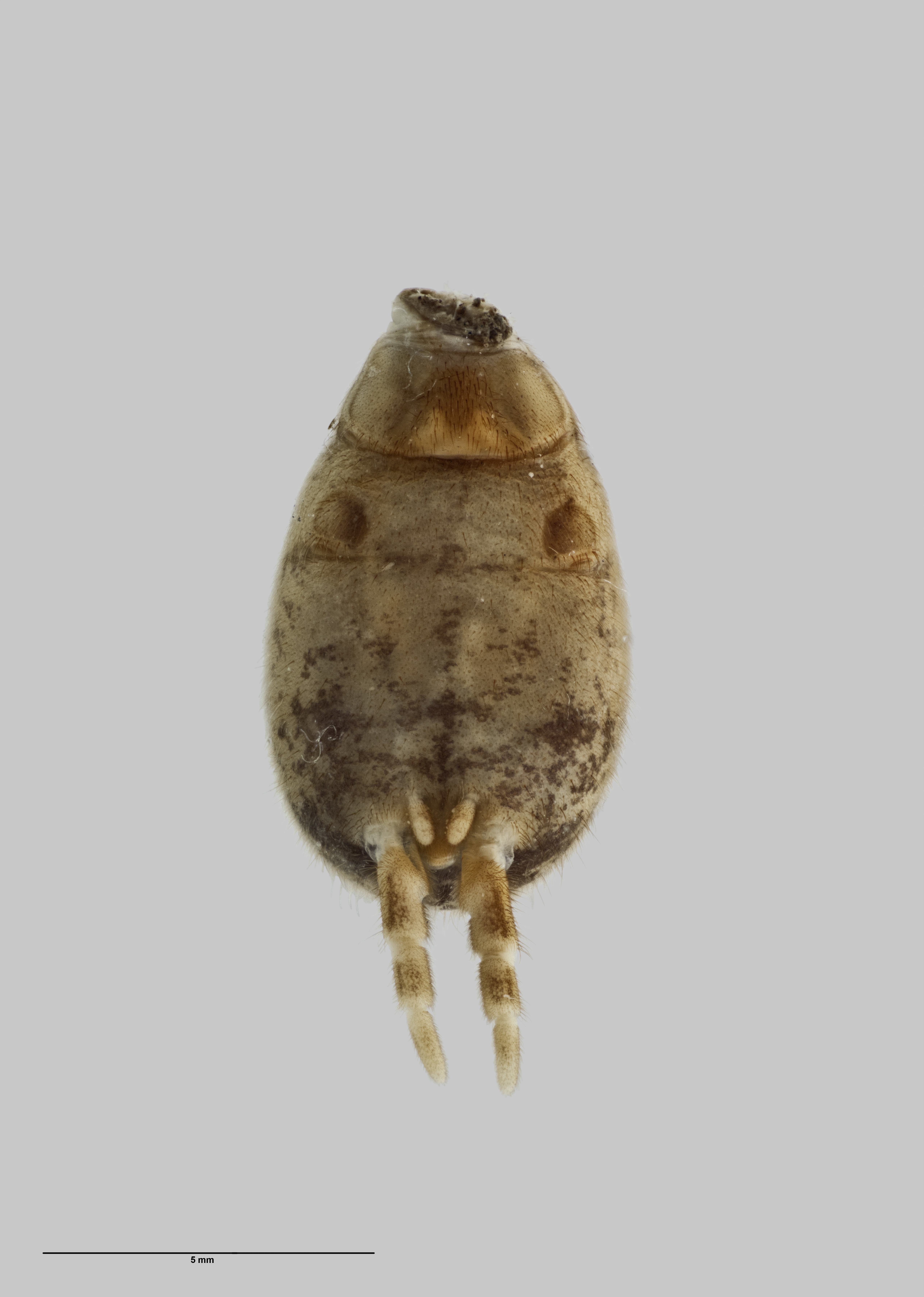 Ventral view of abdomen of holotype specimen of Stanwellia taranga AMNZ5047 held at Auckland War Memorial Museum.